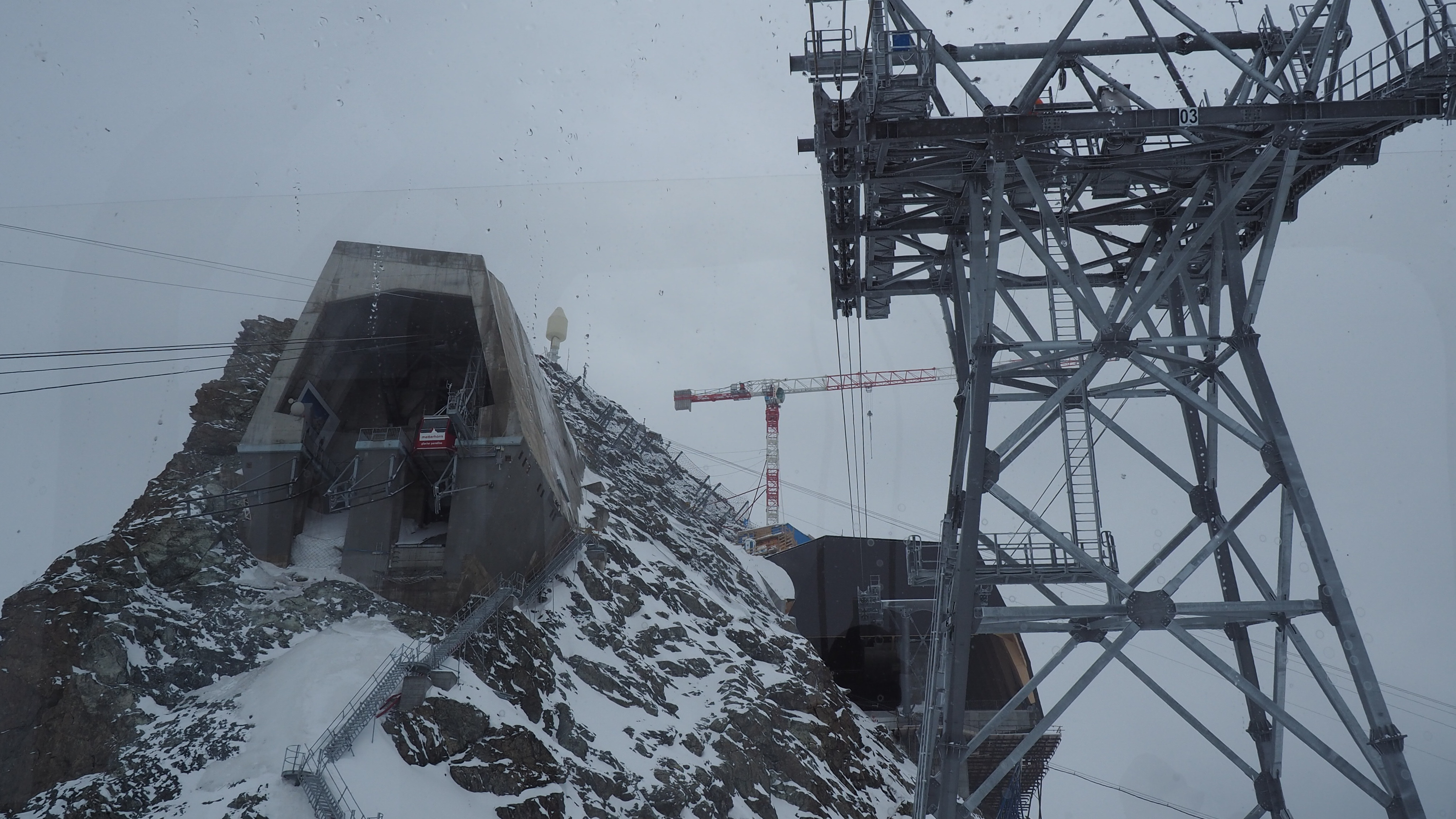 Cable car stations of Klein Matterhorn (Jul. 2019)